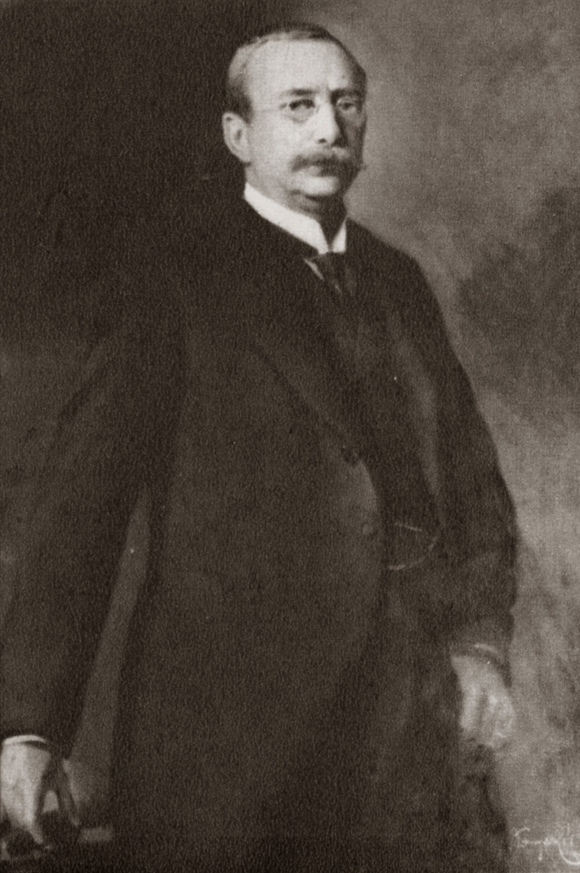 Sir Nicolaas Frederic de Waal (1853–1932), first Administrator of the Cape Colony